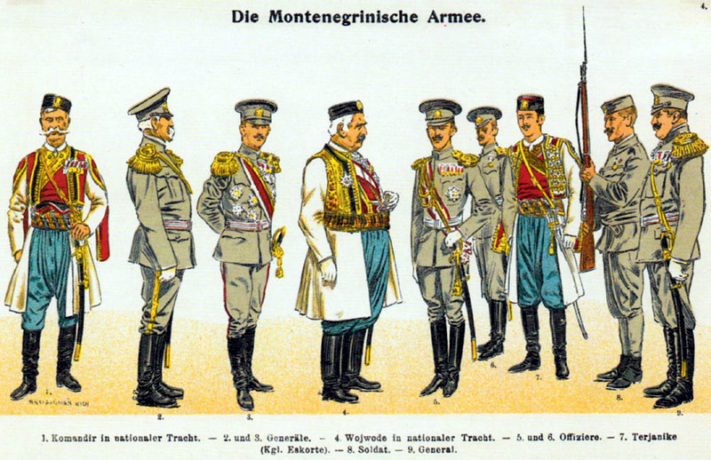 Parade and service uniforms of the Montenegrin Army, 1914